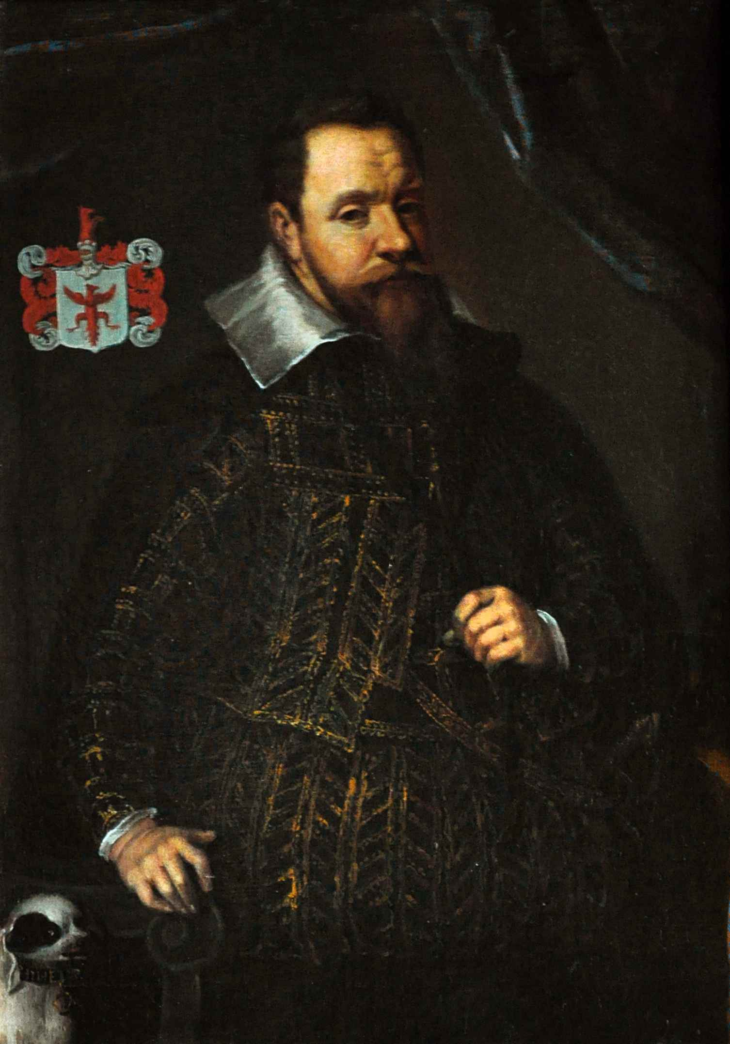 Jakob Ulfeldt (1567-1630), Danish diplomat, explorer and Privy Councillor